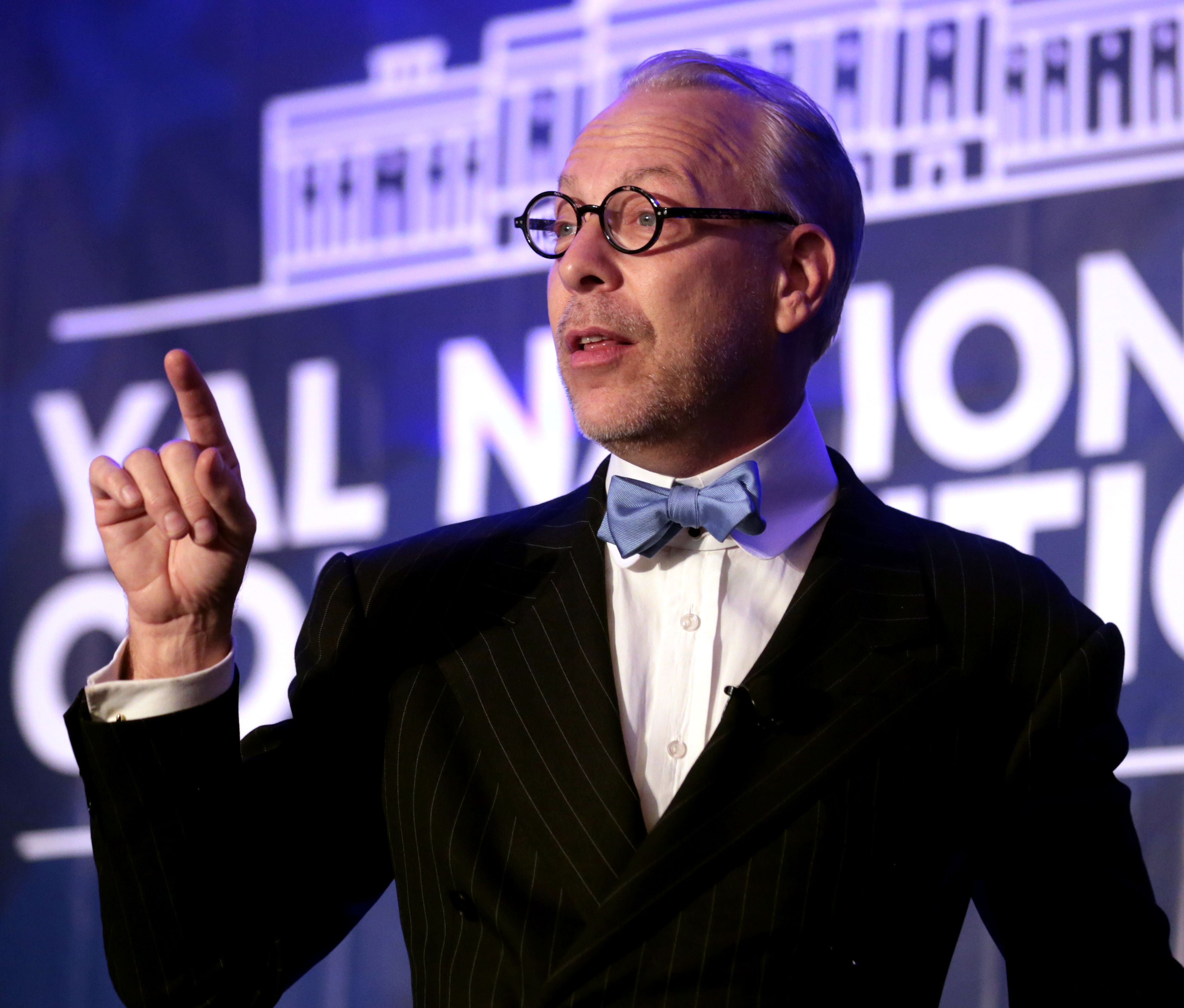 Jeffrey Tucker speaking at an event in Reston, Virginia.